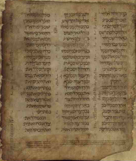 Damascus Keter (Damascus Pentateuch), 2-th century AD ( The National Library of Israel; ms. Heb 5702)